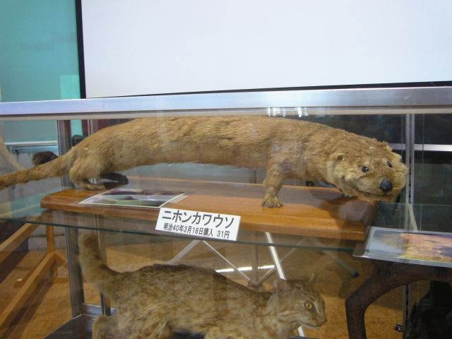 Stuffed Japanese Otter (Nihon-kawauso)